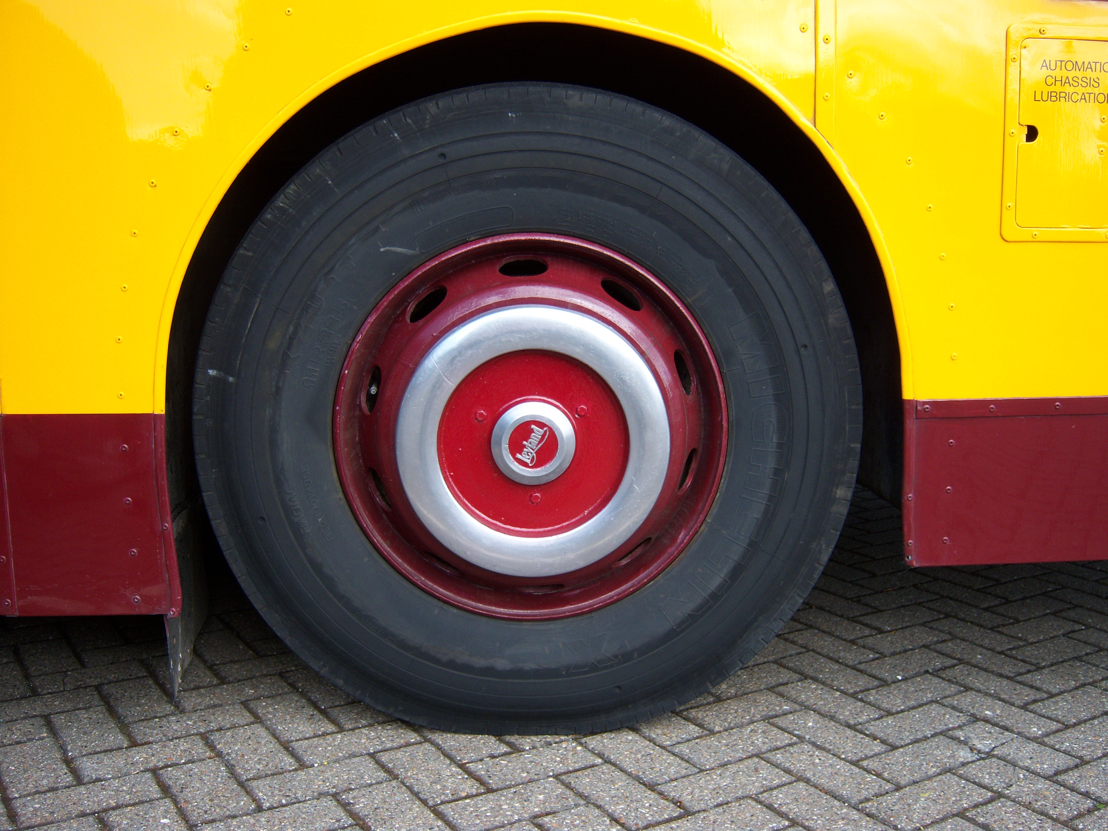 Preserved Busways Travel Services 111 (EJR 111W), a Leyland Atlantean/Alexander, on display at the 2009 Metrocentre bus rally. It is in the Newcastle Busways livery.